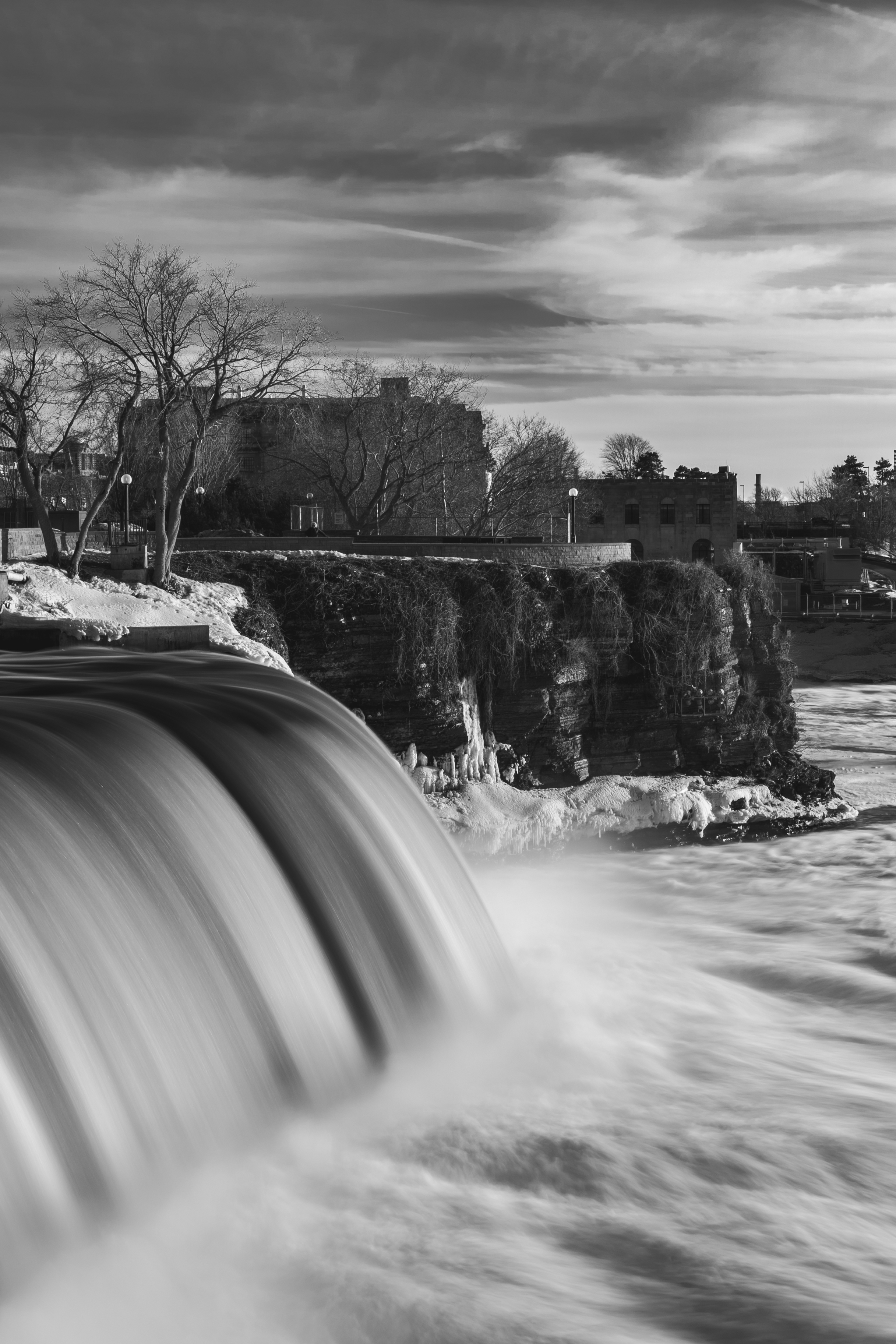 Captured on a sony A7III. 35mm, f16, 2sec. Minor edits for exposure in Lightroom.